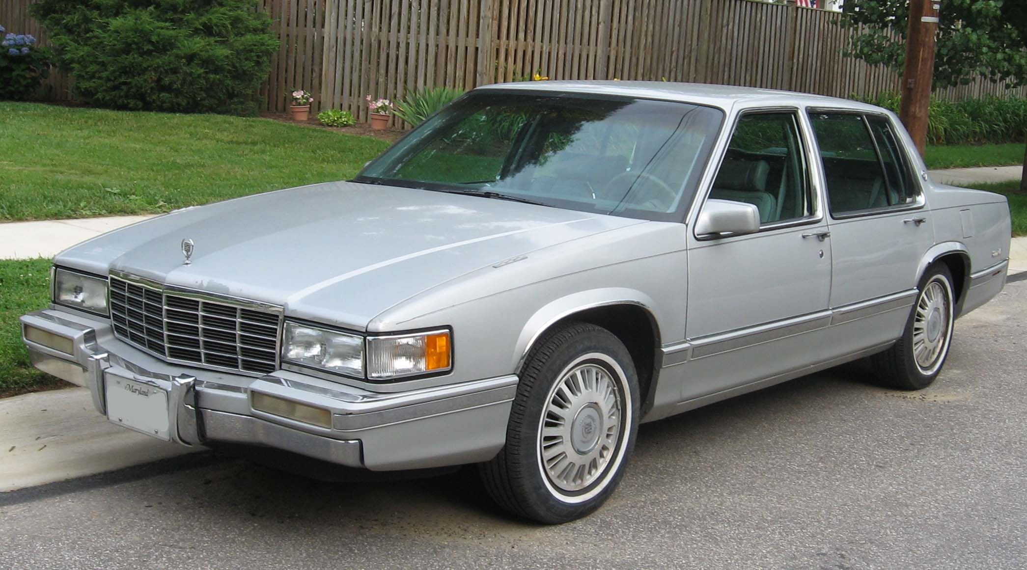 1989-1993 Cadillac Deville photographed in Kensington, Maryland, USA.